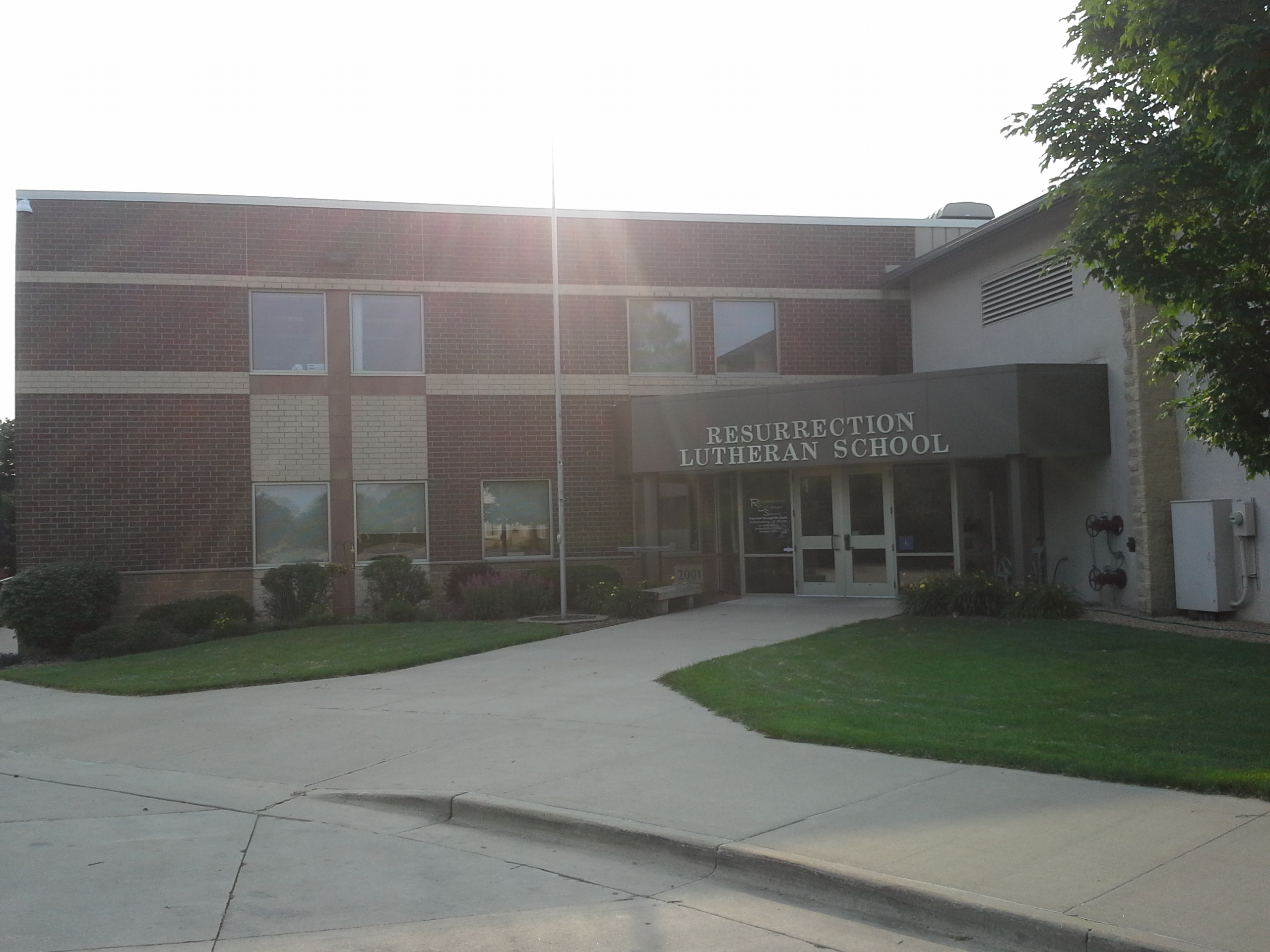 The front entrance of Resurrection Lutheran School of the WELS in Rochester, MN.